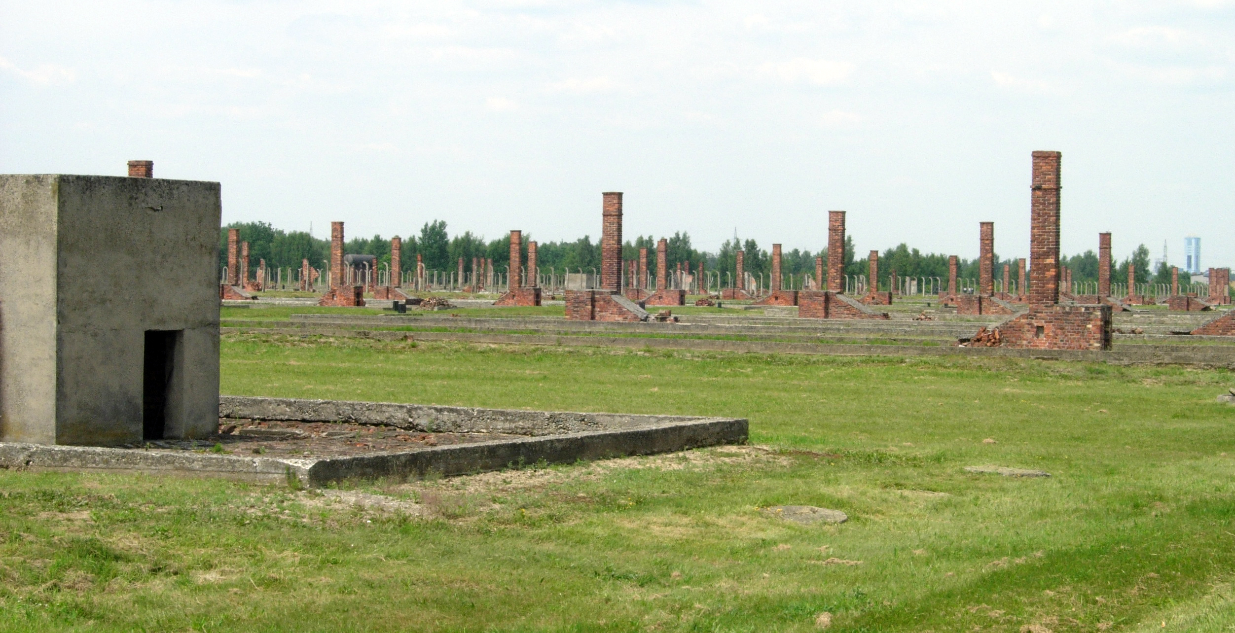 Auschwitz II-Birkenau ruins.